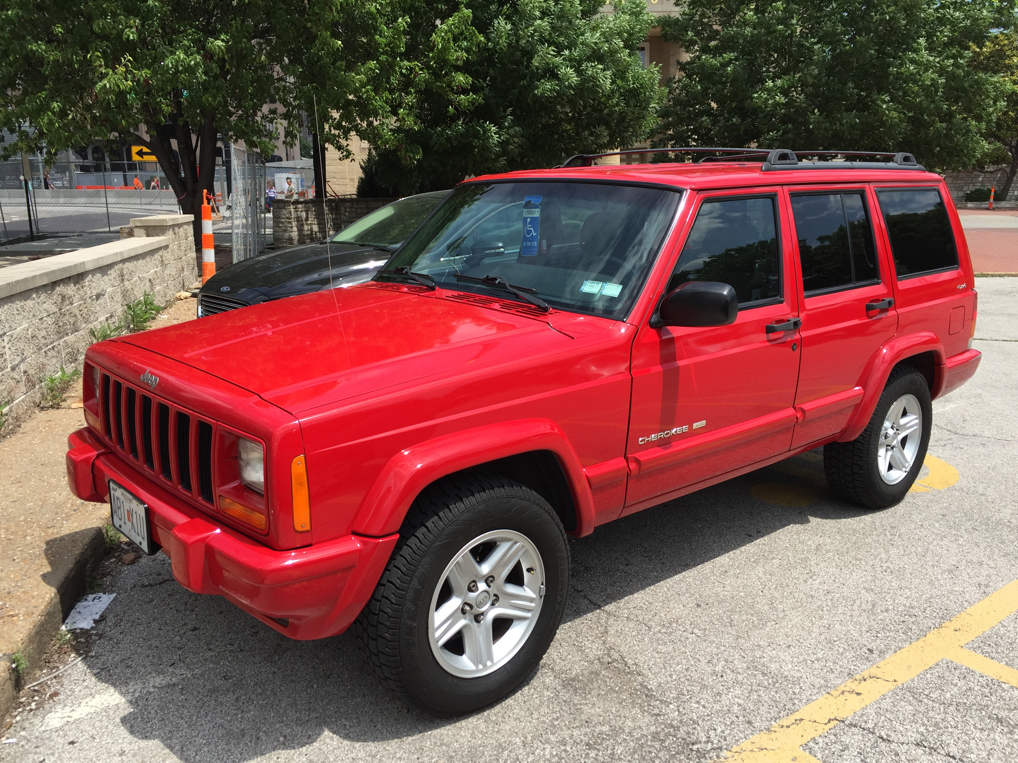 Jeep Cherokee (XJ) Limited (made from 1998–2001) finished in monochrome red. A four-door SUV with 4.0 L straight-six engine. Photographed the parking lot for the Gateway Arch.